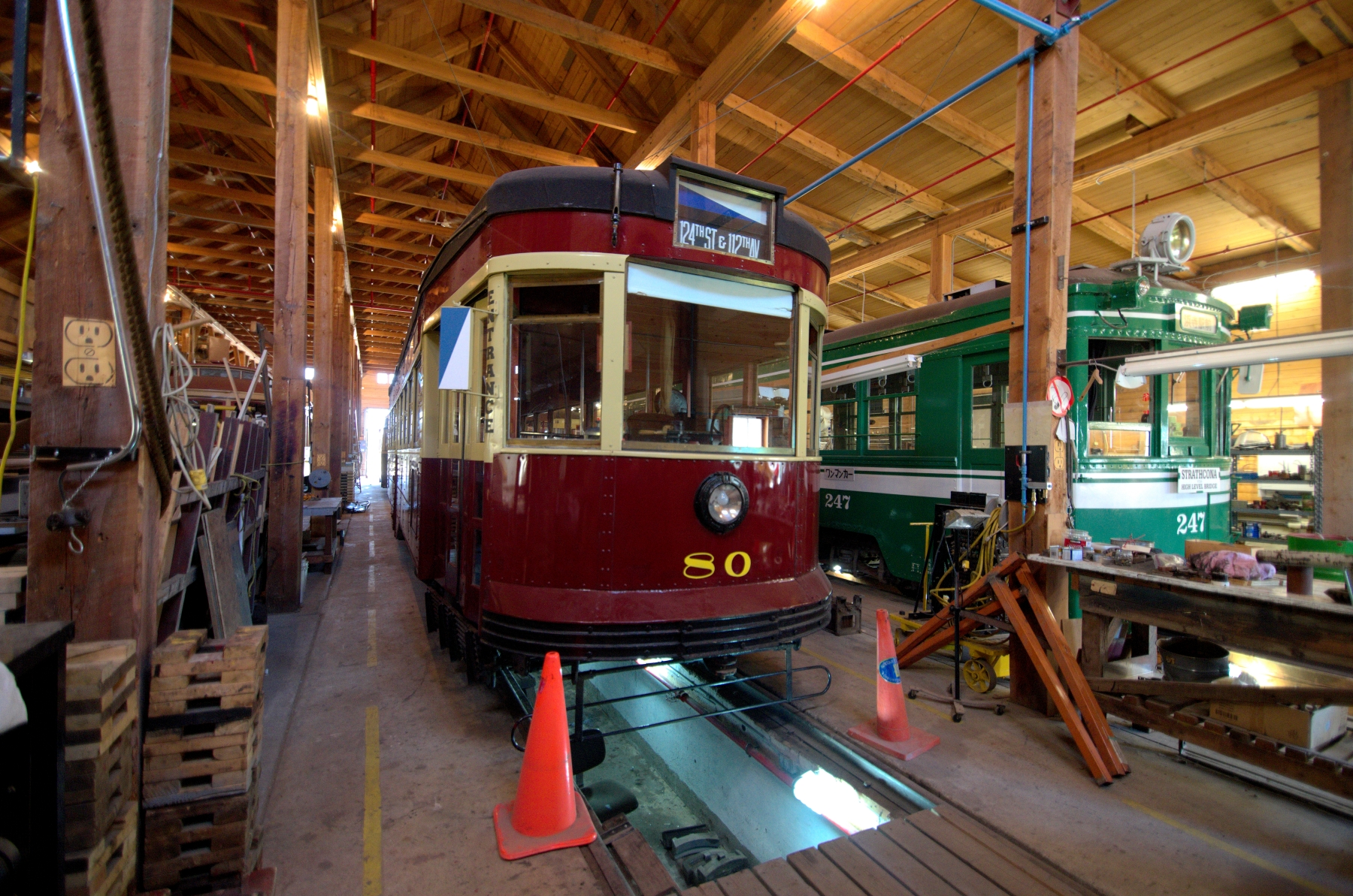 Big thanks to Jim Henry for getting us in here, and big thanks to the folks from the Edmonton Radial Railway Society for hosting us. Delivered to the City of Edmonton in 1930, car 80 served until the streetcar line was decommissioned in 1951. Before restoration the car served as a diner in Dawson Creek BC. Car 247 was built in 1921 and served in Osaka Japan until 1990. The ERRS purchased the car for parts but decided on a full restoration upon discovering its excellent condition on delivery.